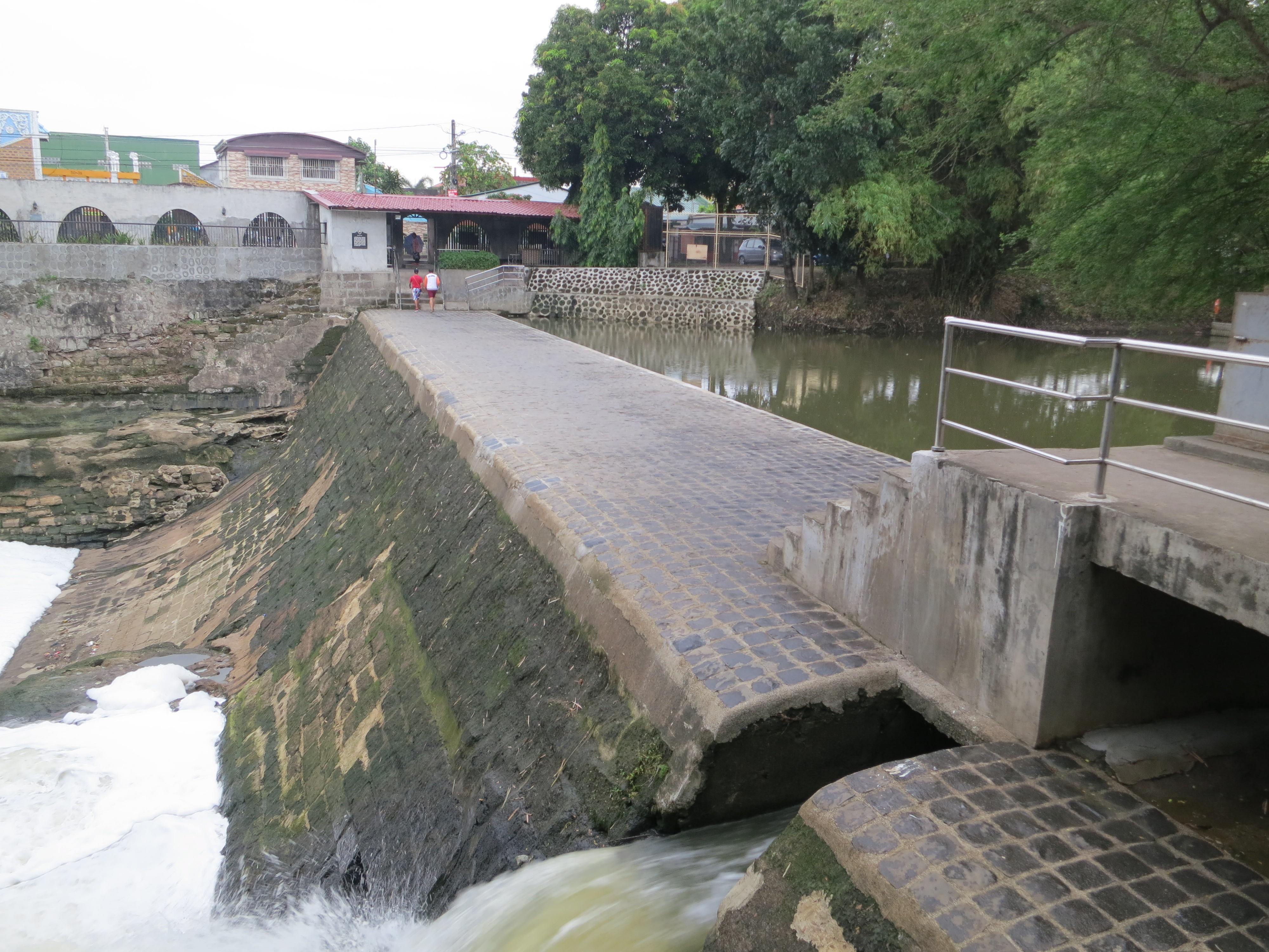 Molino Dam as seen from the Bacoor end of the dam from the downstream side.